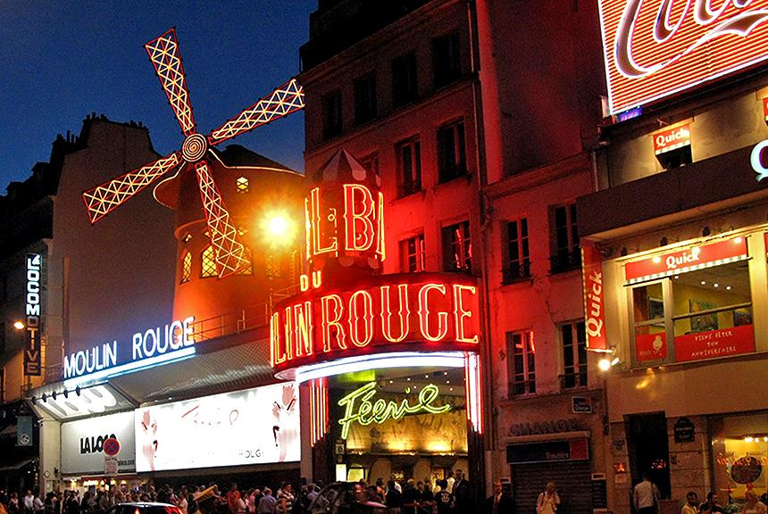 The Moulin Rouge is a famous cabaret in Paris, France. This photograph was taken around midnight on Bastille Day 2007.